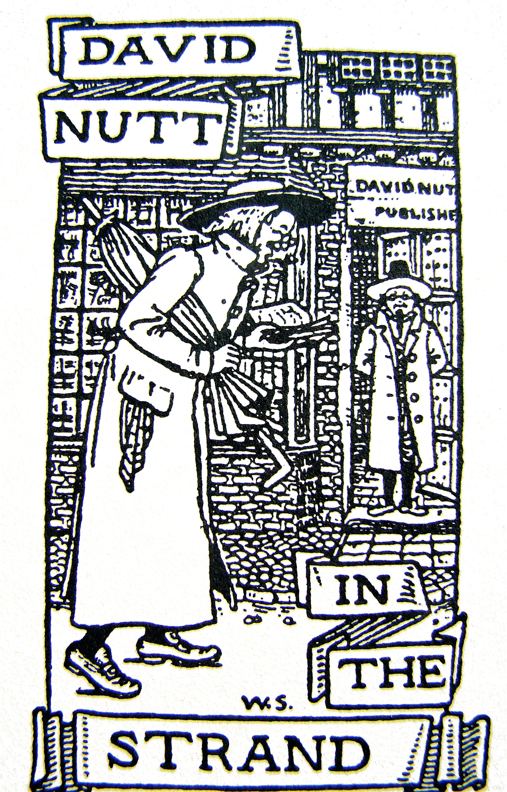 From Children's Singing Games, illustrated by Winifred Smith (originally published in 1894, modern reissue).